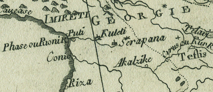 Detail from a map By Rigobert Bonne, published in Geneve in 1780. The detail shows Akhaltsikhe, Georgia